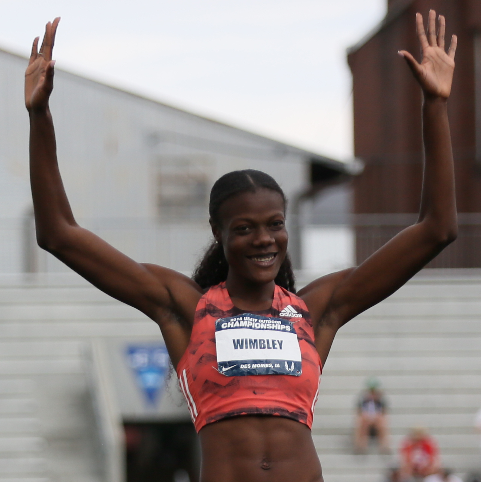 Shakira Wimbley at USTAF